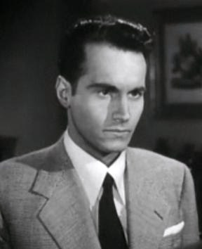 Austrian actor Helmut Dantine (1917-1982) in Joseph Santley's Shadow of a Woman - trailer (cropped screenshot)